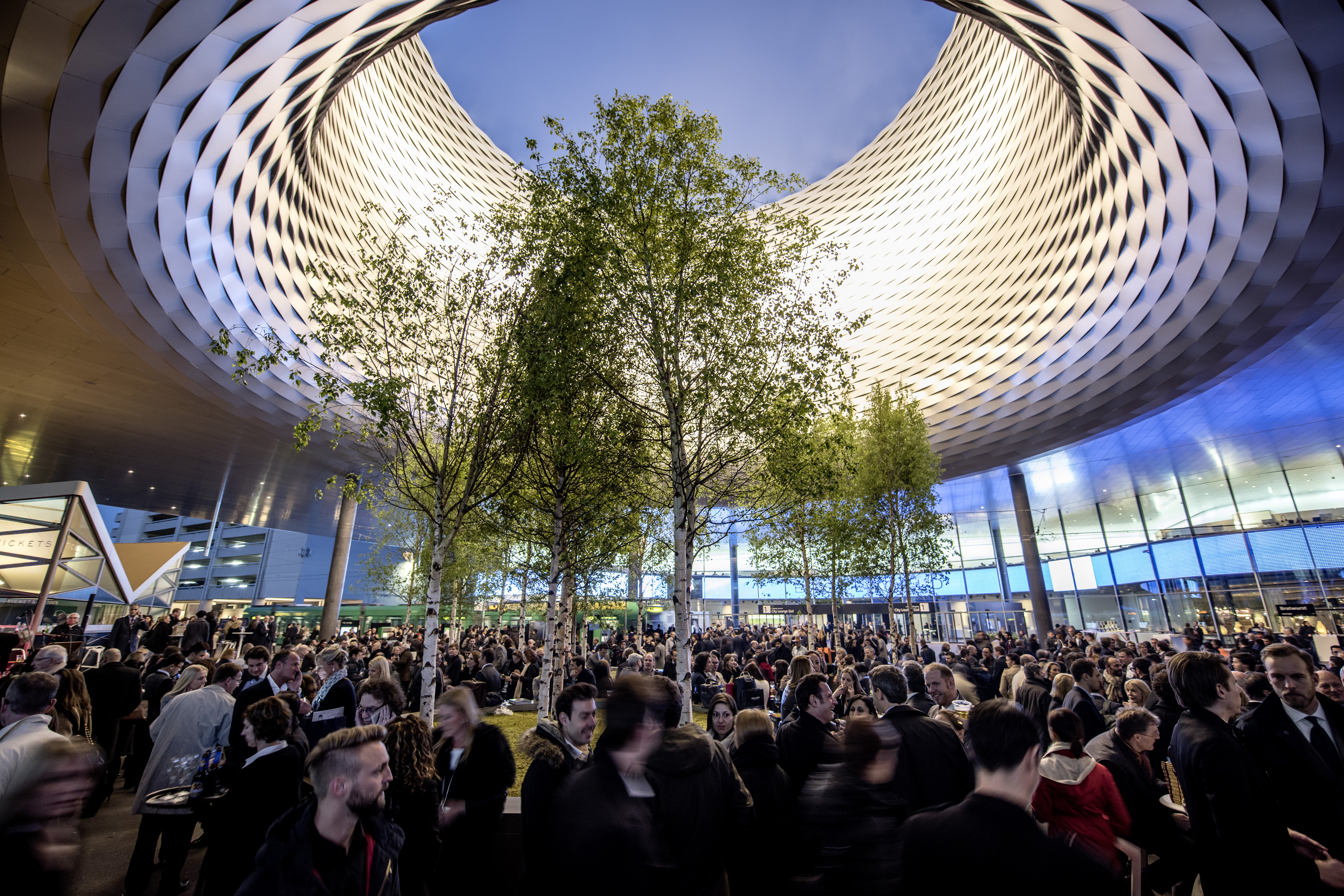 Outside View of Baselworld 2015